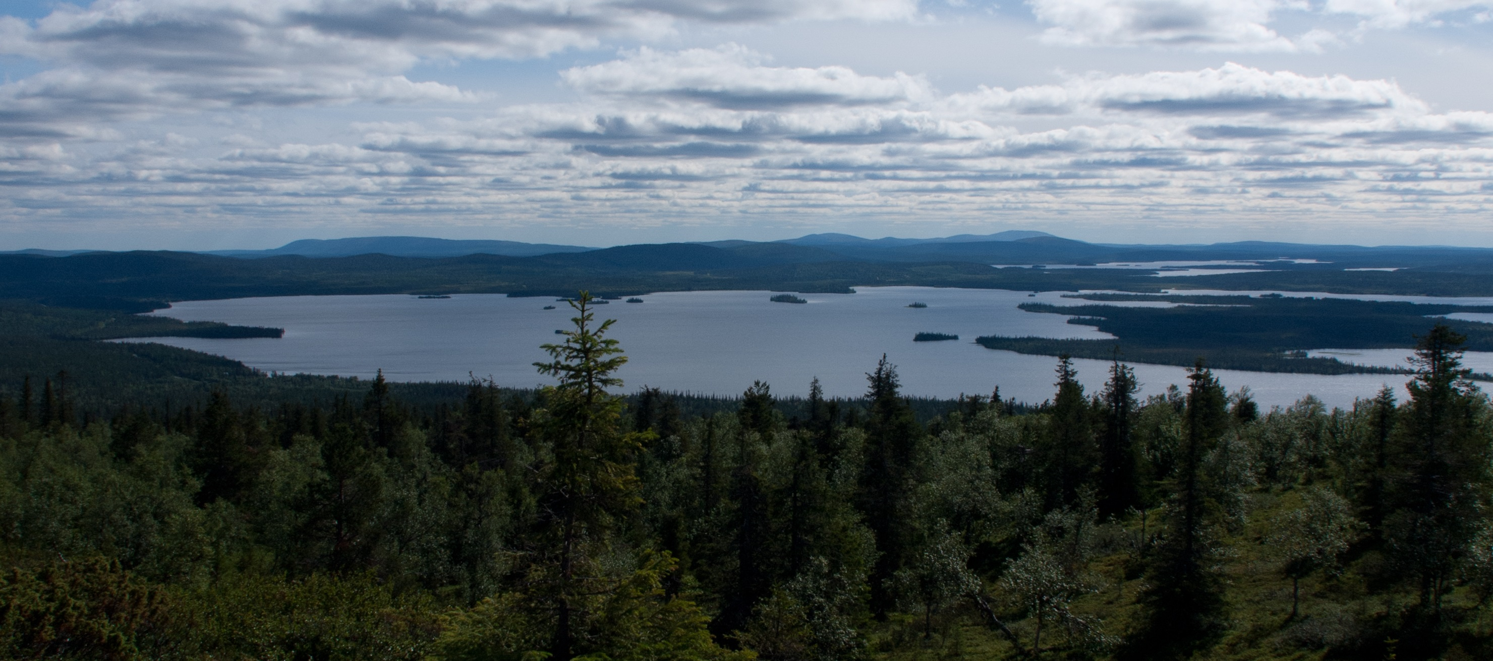 Lake Jerisjärvi seen from Keimiö fell in Muonio, Finland.